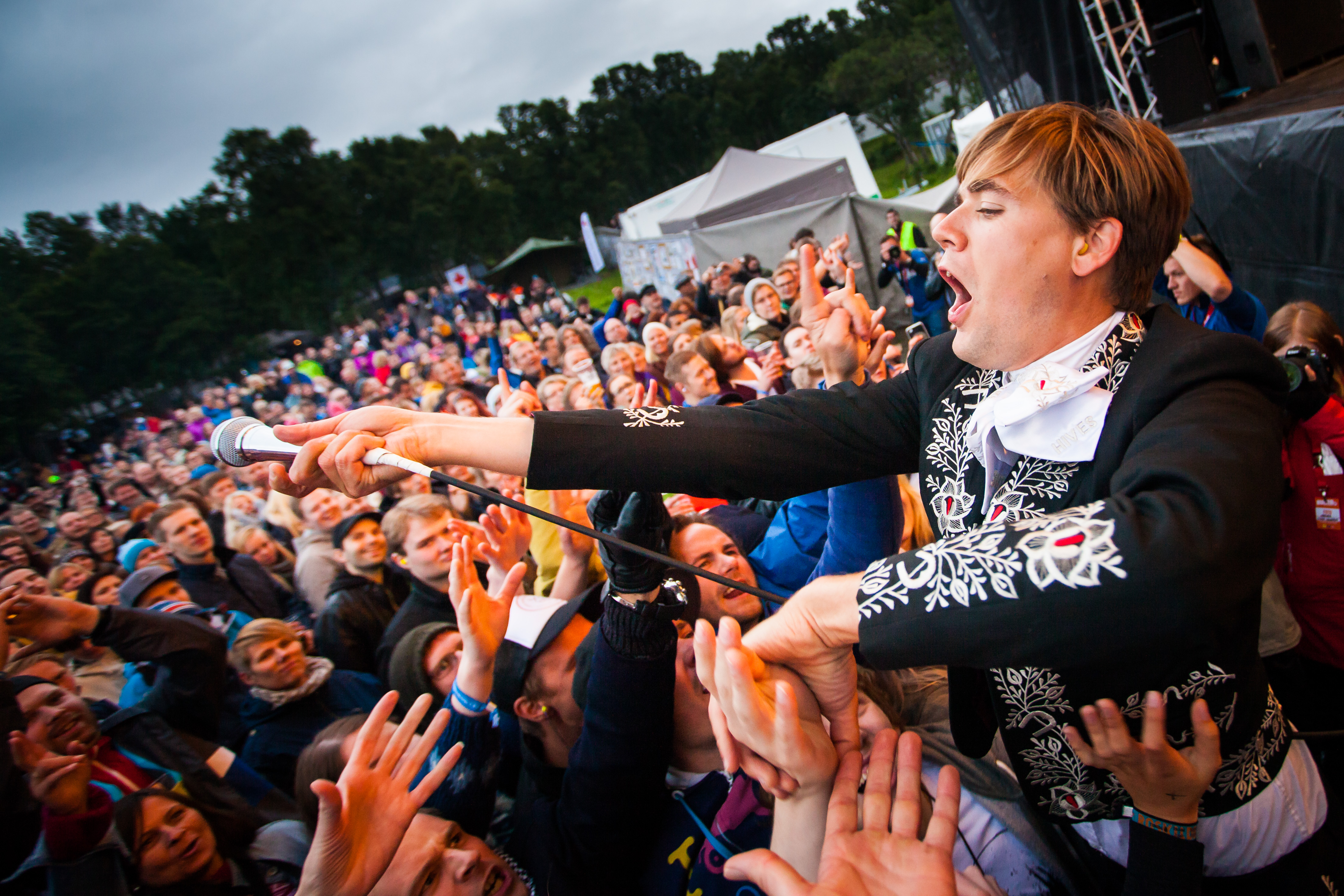 The Hives on stage during Bukta open air festival 2013.